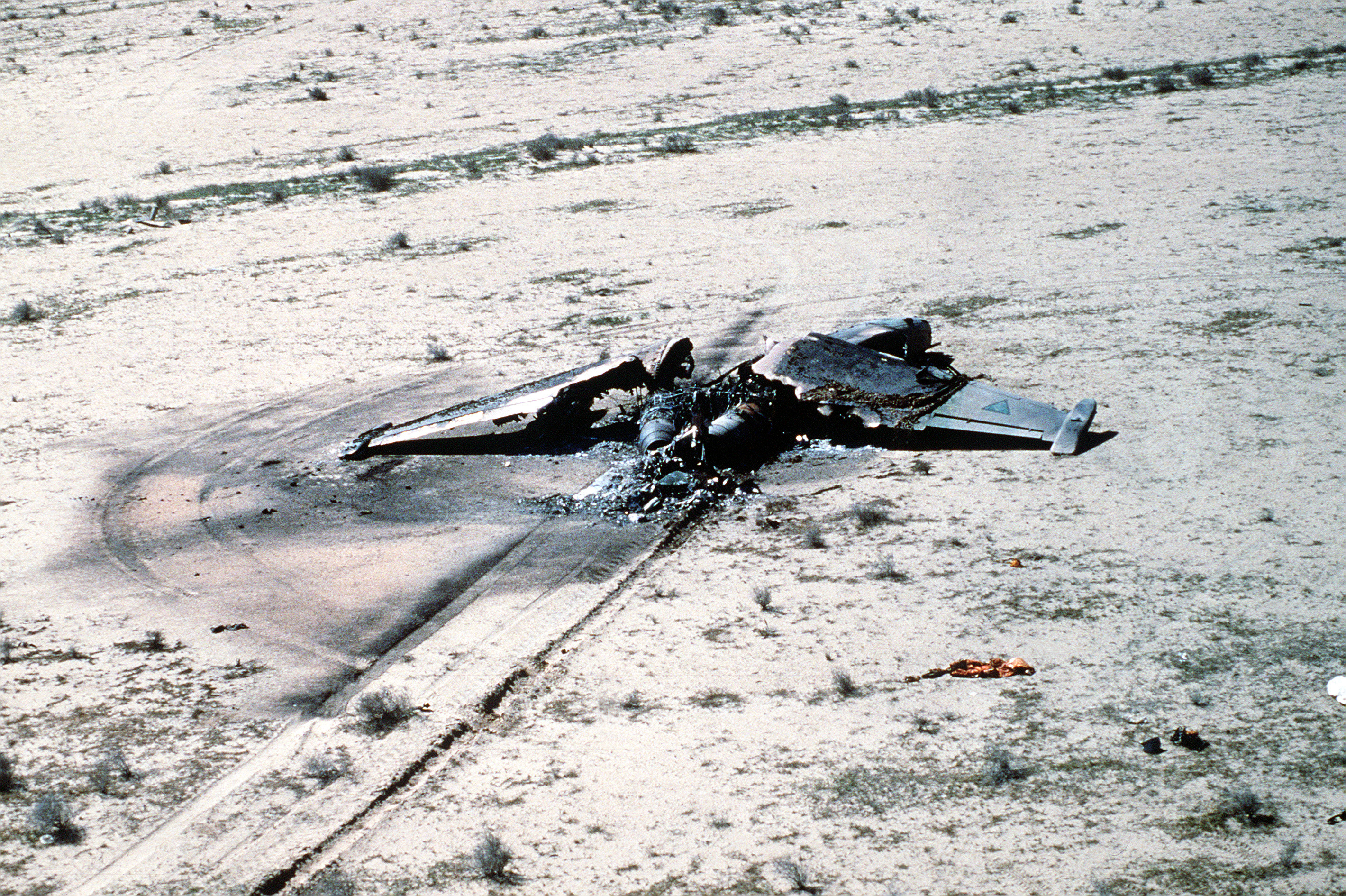 A view of an Iraqi Su-25 fighter aircraft destroyed in a Coalition attack during Operation Desert Storm.